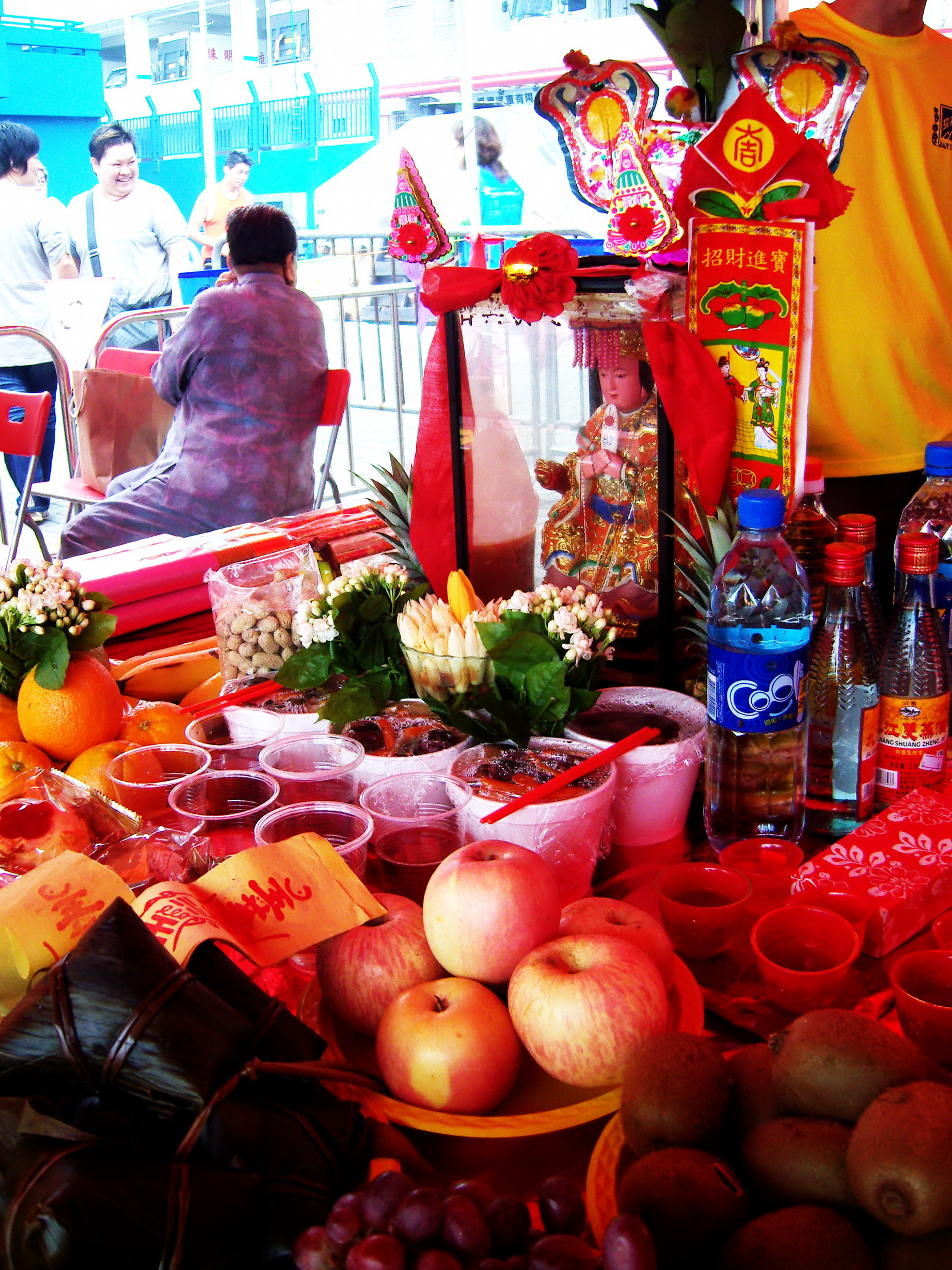 Eastern District Dragon Boat Race held in Wan Chai, Hong Kong.